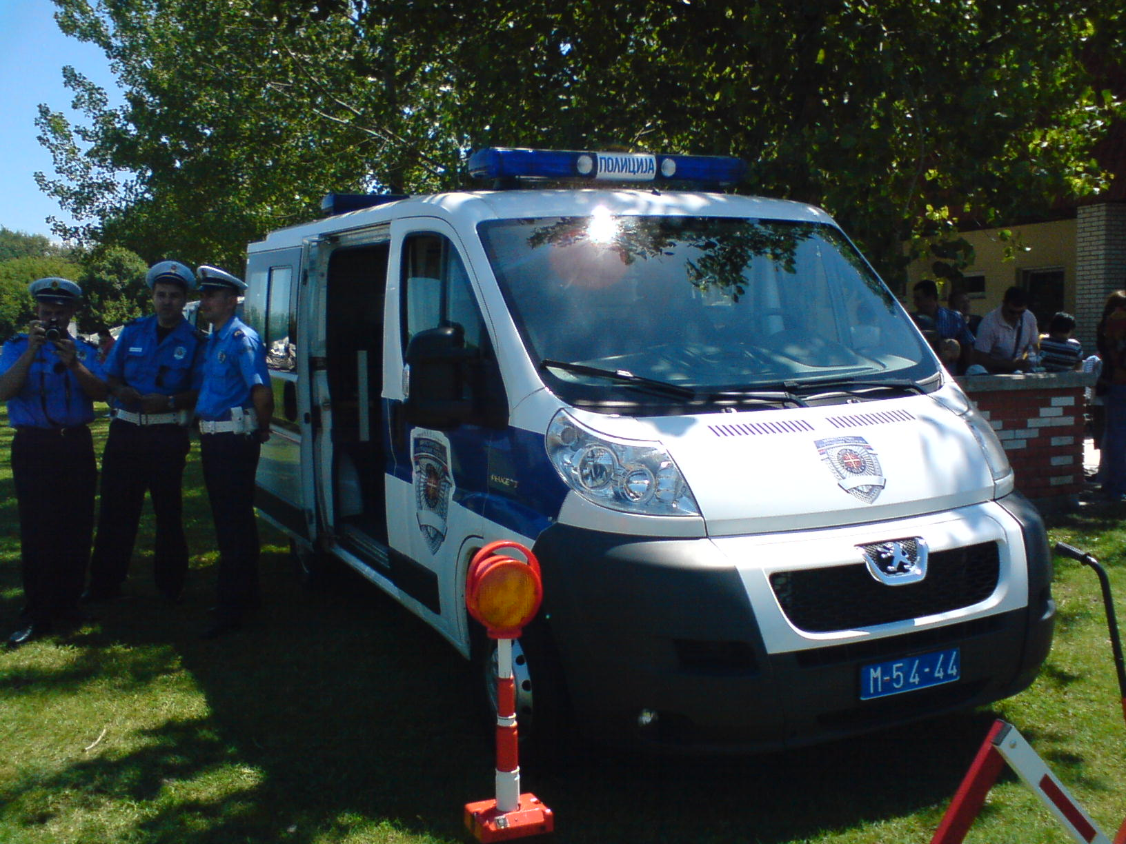 Peugeot Boxer 330 Lihi of Serbian Traffic Police.